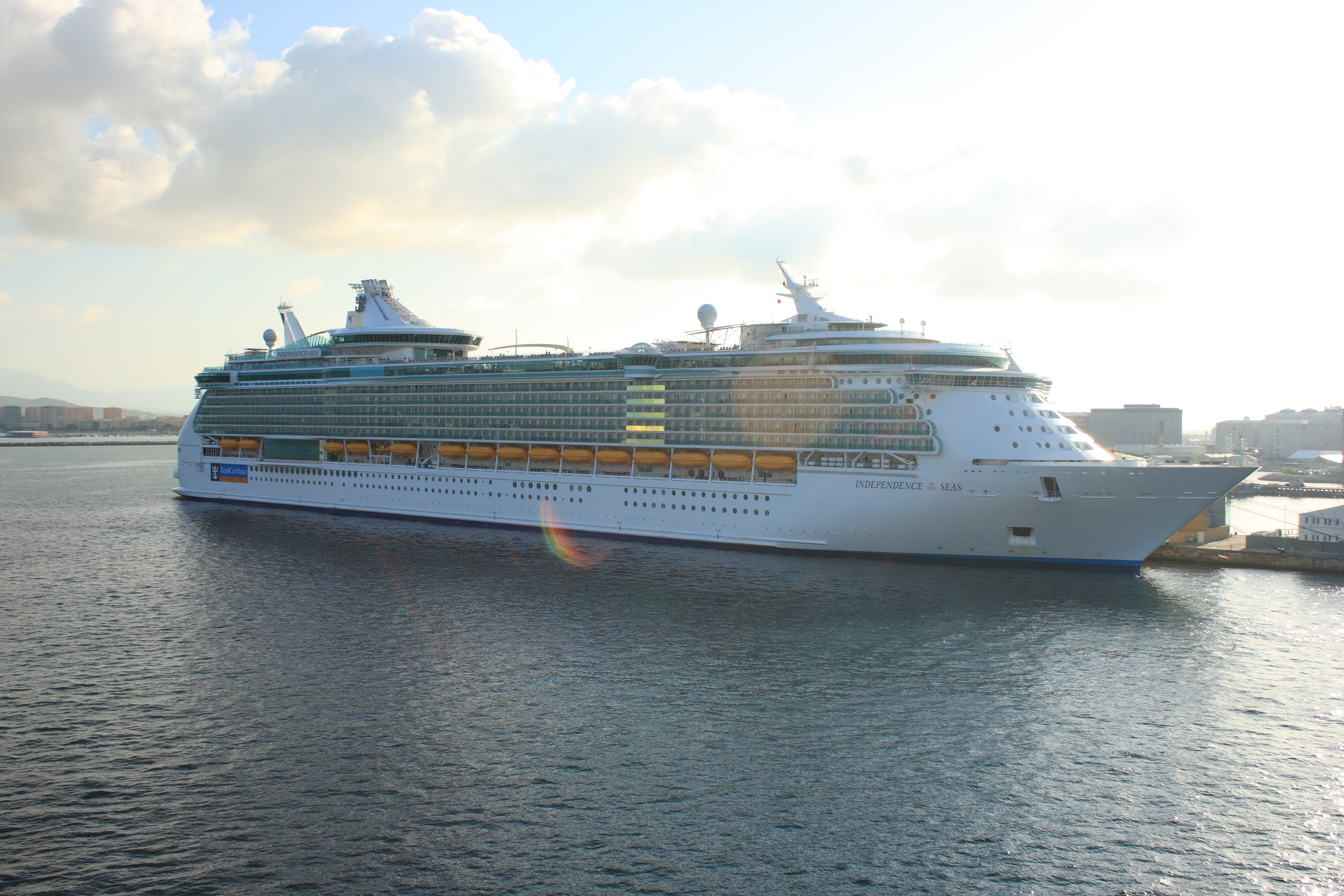 Royal Caribbean's Independence of the Seas in the Port of Gibraltar.